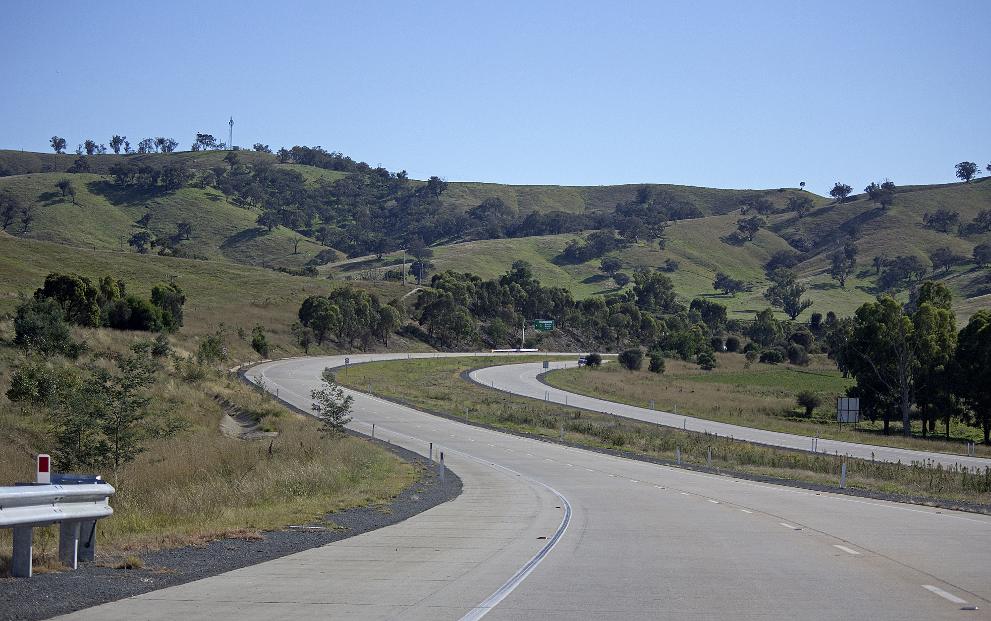 Hume Highway on the outskirts of Tarcutta, near the Sturt Highway turnoff.